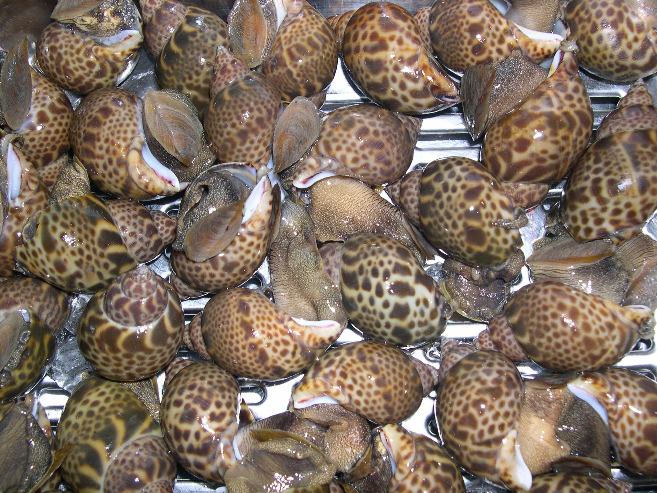 Babylonia japonica (Reeve, 1842)（Babyloniidae) from Niigata Prefecture for sale at a fishmarket in Tokyo, Japan. 200 JPYen/100g